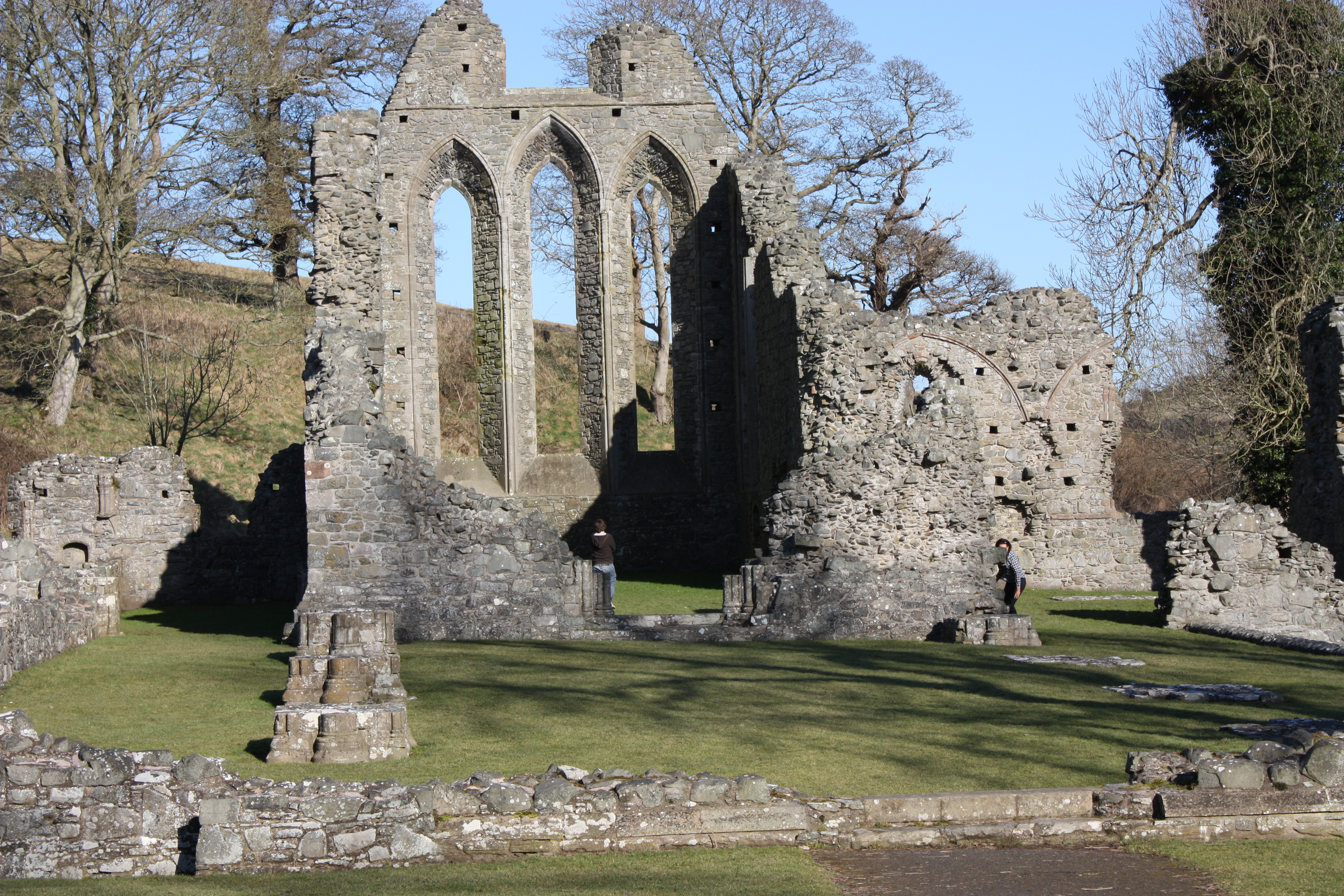 Inch Abbey, Inch Abbey Road, Downpatrick, County Down, Northern Ireland, March 2010